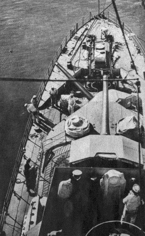 Polish destroyer ORP Burza, about 1936